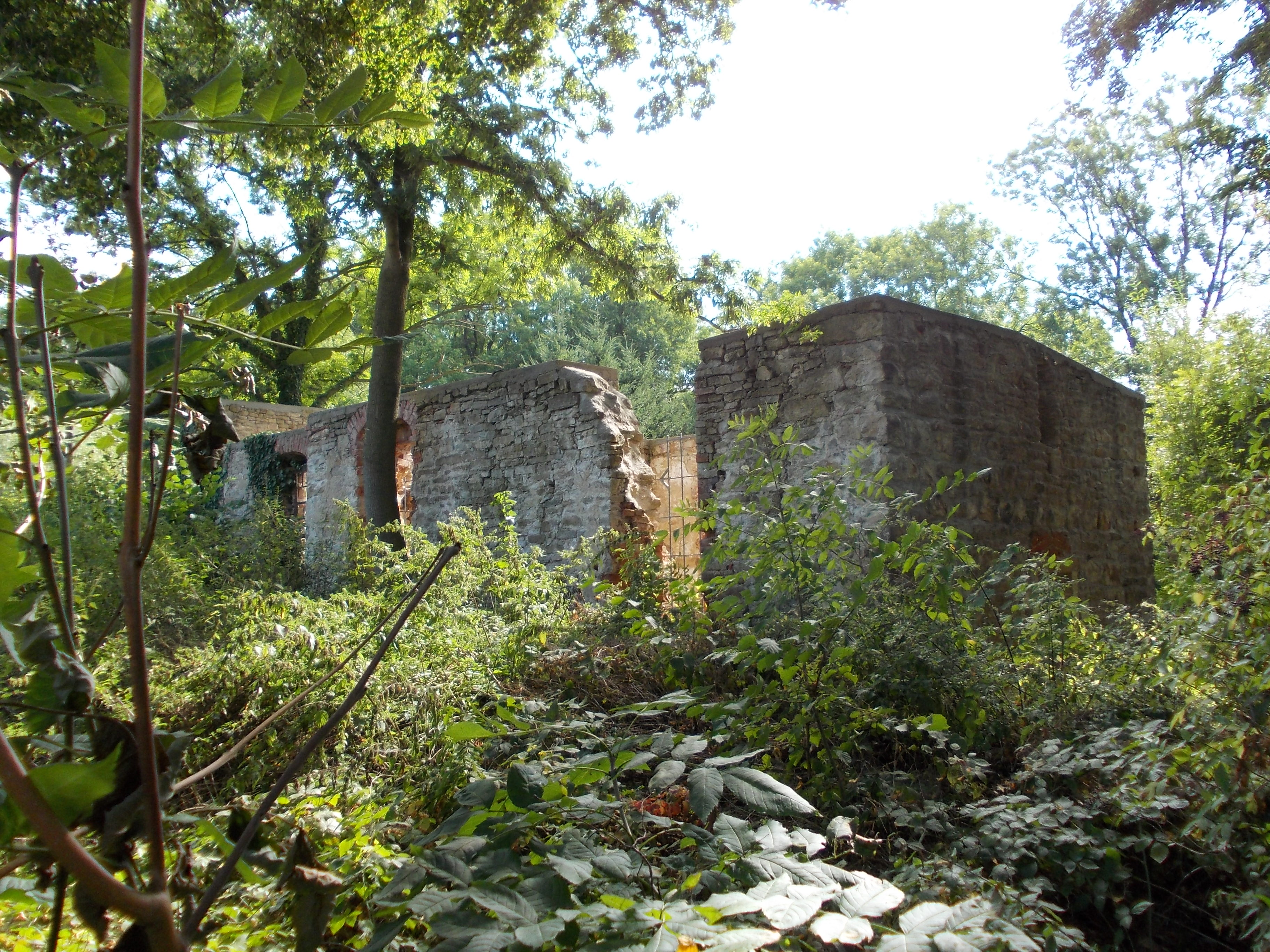 Ruins of the church of Priesen (Meineweh, district of Burgenlandkreis, Saxony-Anhalt)